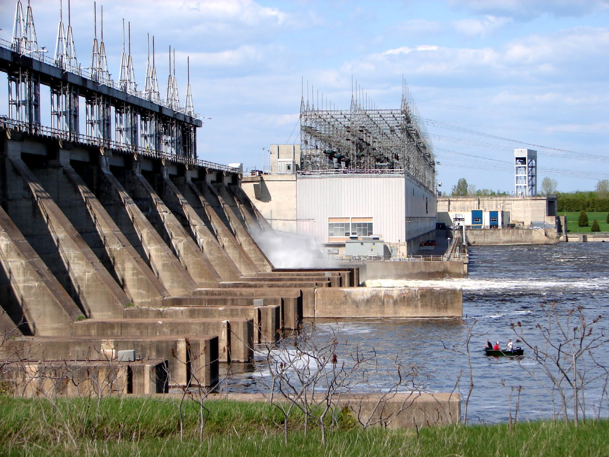 Carillon Hydroelectric Power Station, Saint-André-d'Argenteuil, Quebec, Canada